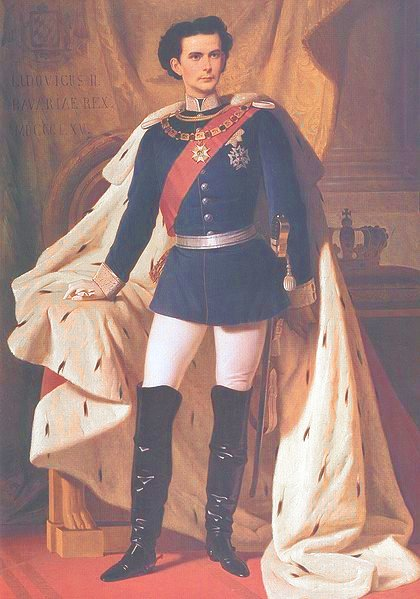 King Ludwig II of Bavaria in generals' uniform and coronation robe